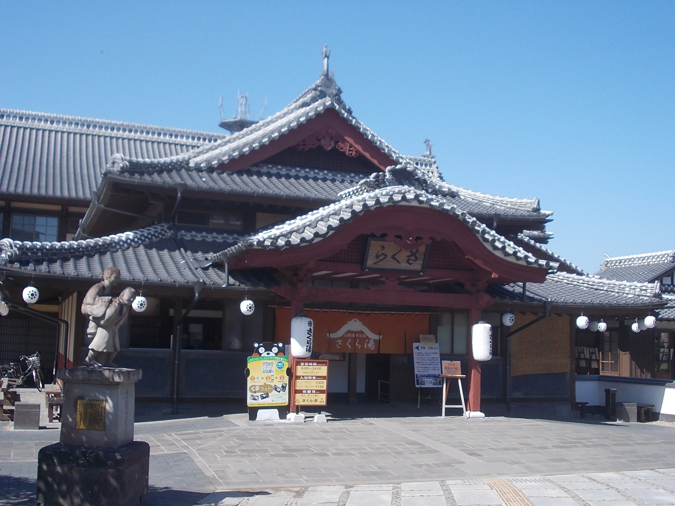 Sakura-yu, a public bath in Yamaga Onsen, Kumamoto, Japan